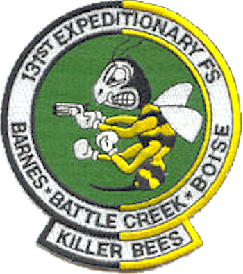 The 131st Expeditionary Fighter Squadron consisted of personnel and aircraft from the 104th Fighter Wing, 110th Fighter Wing and 124th Wing. Killer Bees refers to the fact that all home stations of the units started with the letter "B".